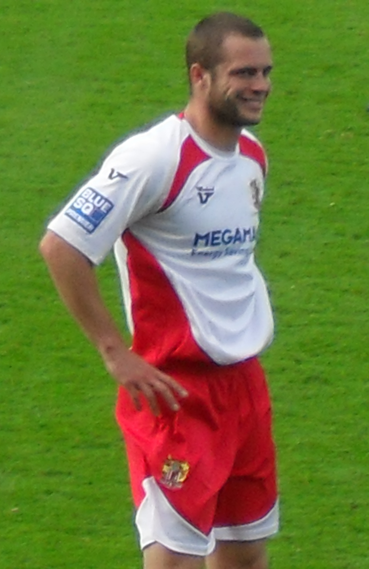 Chris Beardsley playing for Stevenage Borough against York City at Bootham Crescent, York on 3 October 2009